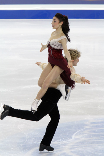 Meryl Davis and Charlie White at the the 2010 World Championships.